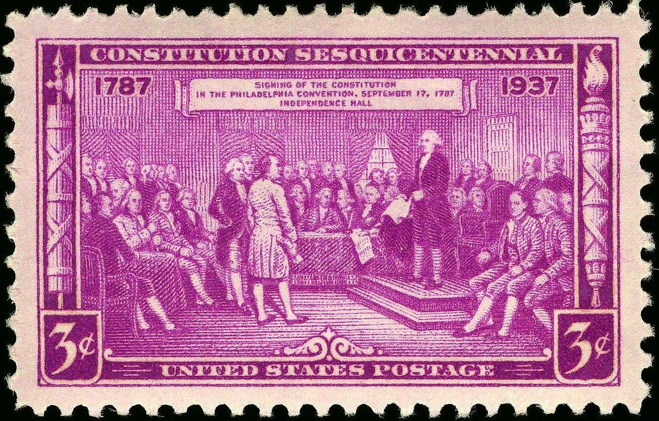 US Postage Stamp depicting delegates at the signing of the US Constitution.